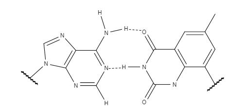 Adenine (left) forms two hydrogen bonds with x-Thymine (right). Created using MolView.